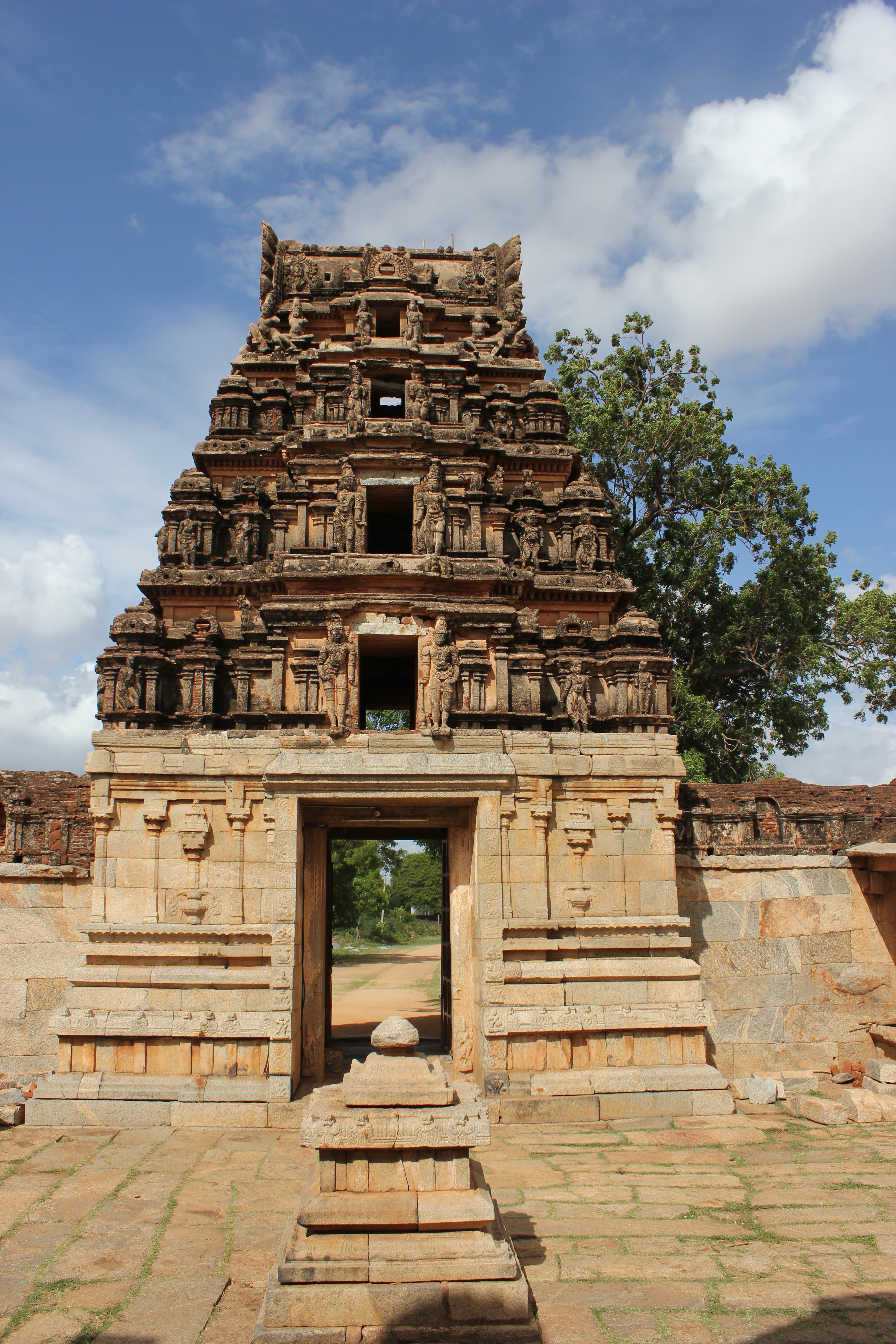 This photograph was taken by me at the Gopala Krishnaswamy temple in Timmalapura, Bellary district, Karnataka state, India. The temple was constructed in 1539 A.D. by a local chief during the rule of King Achyuta Raya of the Vijayanagara Empire.